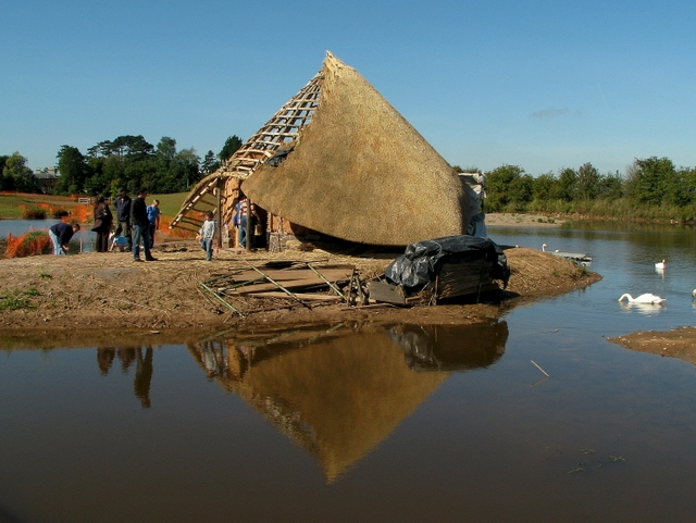 Crannóg construction, Castle Espie. A replica crannóg under construction at Castle Espie 1491908 near Comber. Dating from prehistoric or medieval times, crannógs are artificial islands constructed in lakes or rivers. They were most commonly used as settlements or dwellings - the surrounding water made it difficult for intruders to attack. They were most common in Ireland, particularly parts of Ulster, and also in Scotland. This Wildfowl & Wetlands Trust centre is situated on the site of a Victorian brick and pottery factory on the shores of Strangford Lough. See 8109242 for some related images.